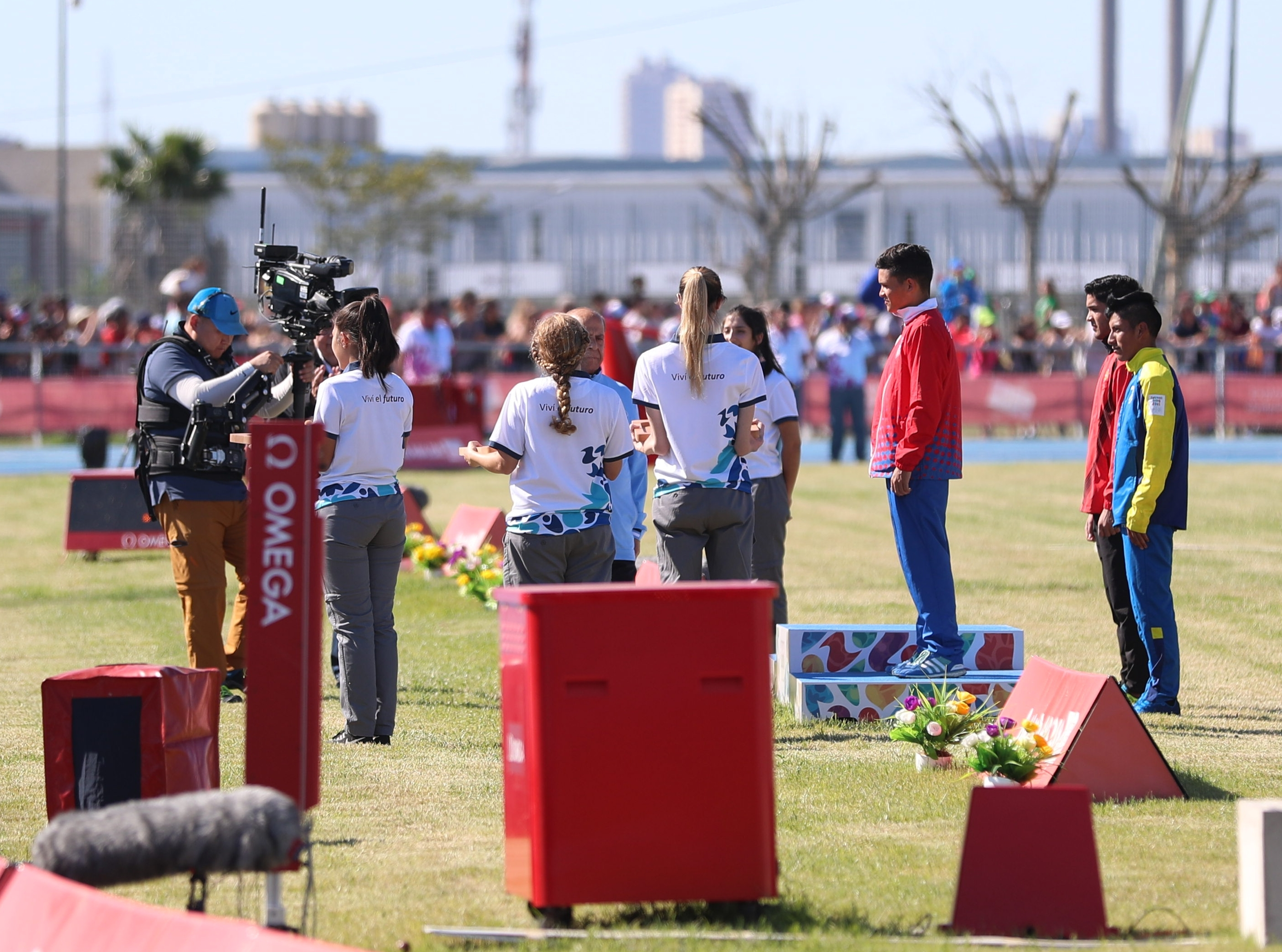 Athletics at the 2018 Summer Youth Olympics in Buenos Aires on 15 October 2018.